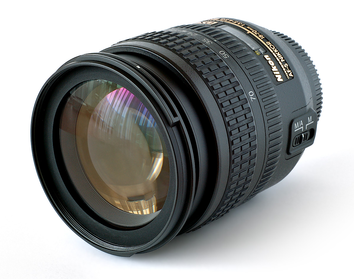 This image shows a "Nikon Nikkor 18-70 AF-S DX / 3.5-4.5 G IF-ED" lens.